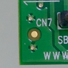 A round fiducial with gold plating.